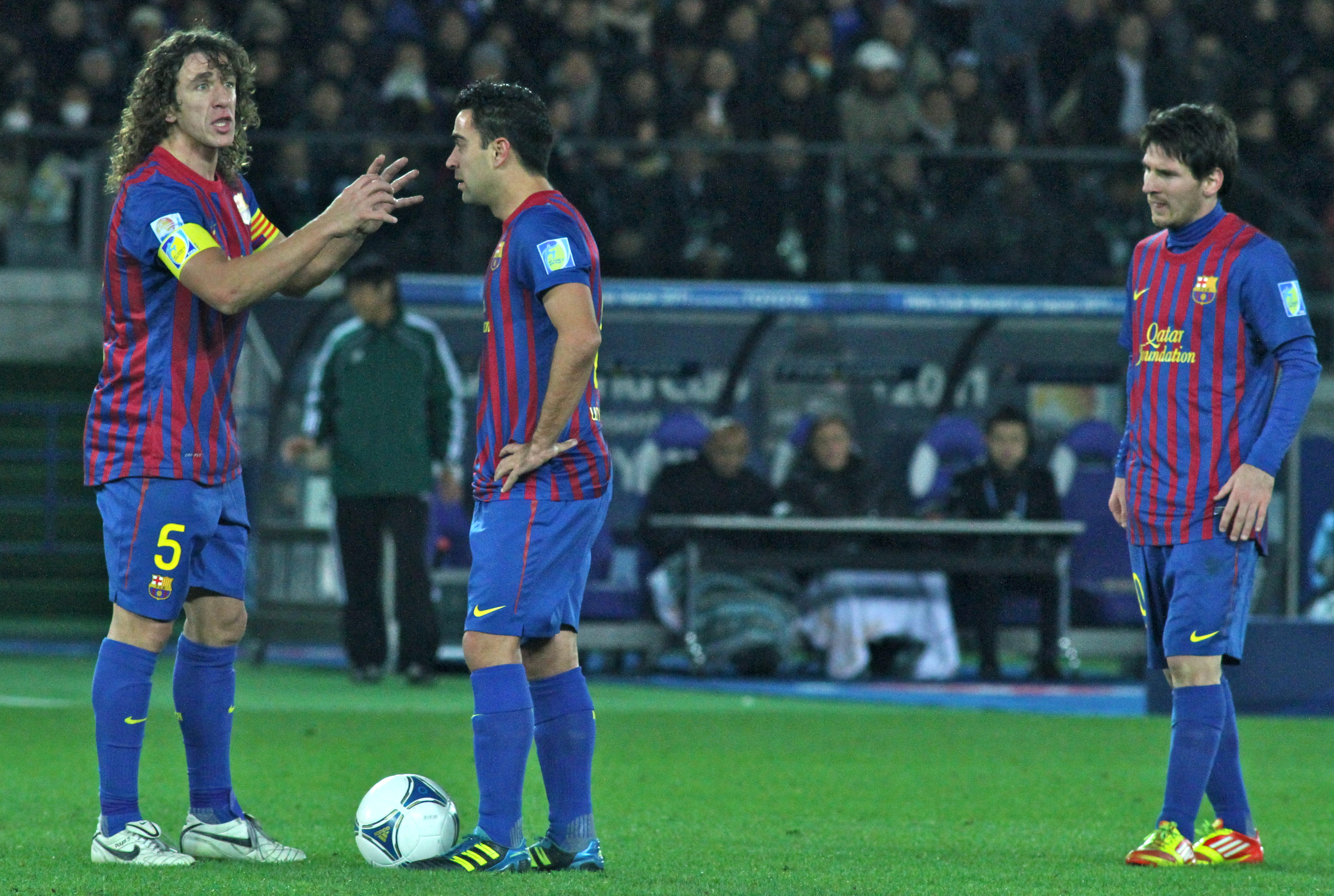 Puyol, Xavi and Messi during the final match of the FIFA World Cup 2011 against Santos FC.